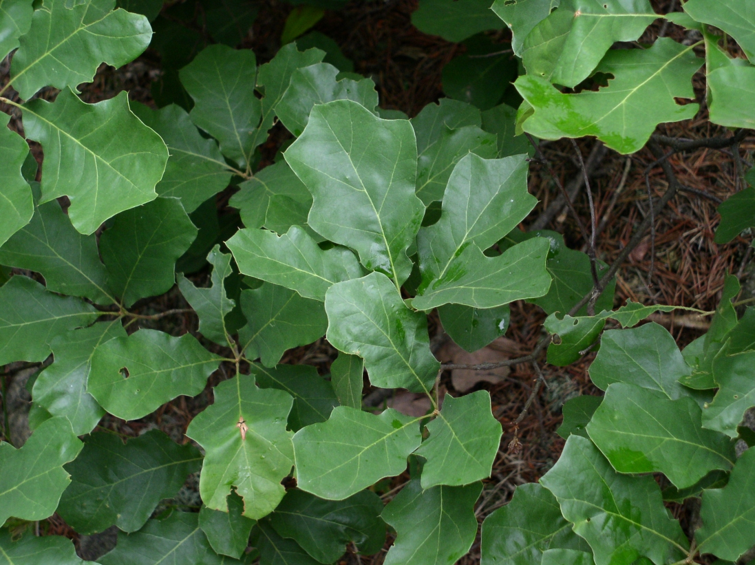 Quercus ilicifolia in rocky open forest of Pinus pungens (mountain pine) and Quercus prinus (chestnut oak) on North Fork Montain, West Virginia, USA.